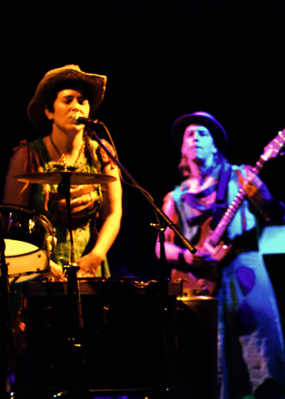 Faun Fables performs at The Uptown, Oakland CA, September 25th 2009. Shown are Dawn McCarthy (left) and Nils Frykdahl (right).